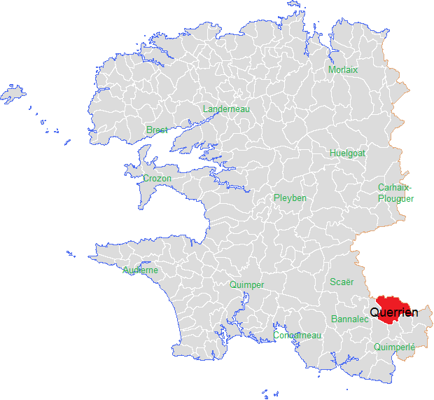 placement Querrien in departement Finistère